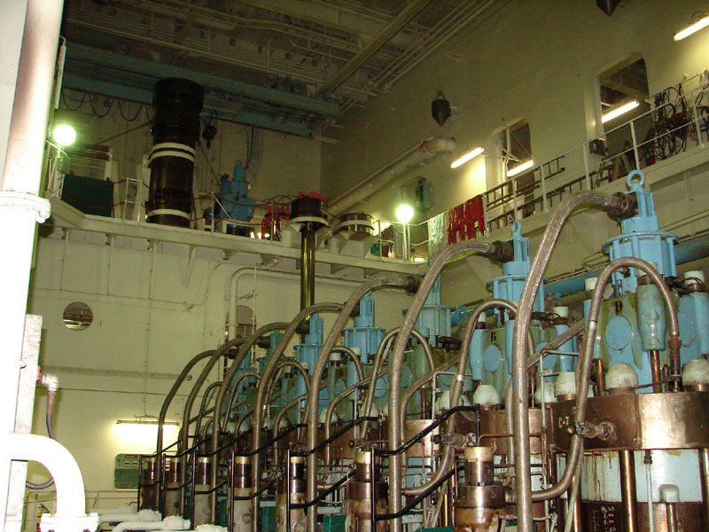 Main engine of the VLCC Algarve : Man B&W, 25 800 kW, 7 cylindres